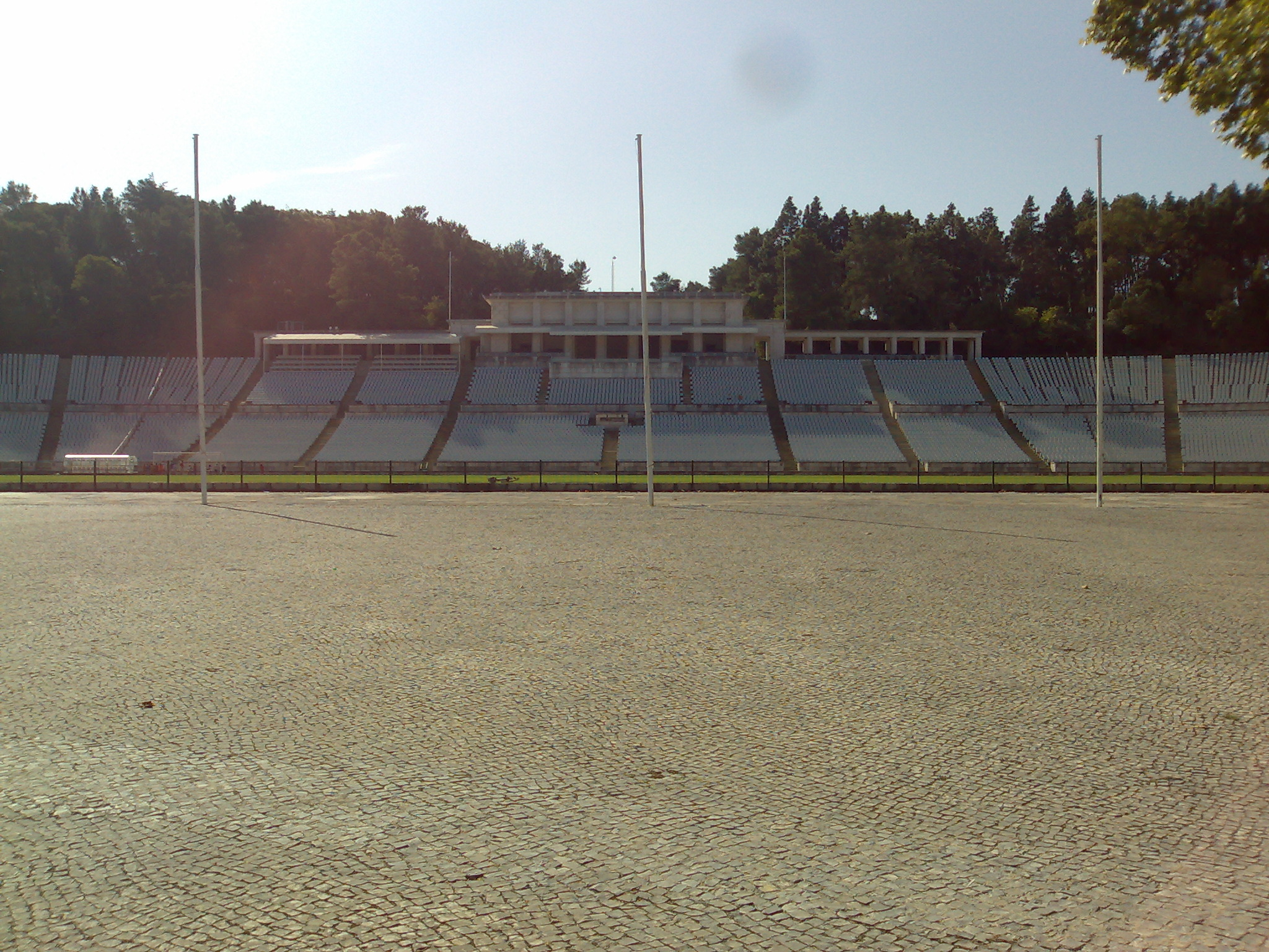 Estádio Nacional do Jamor, Lisbon, Portugal